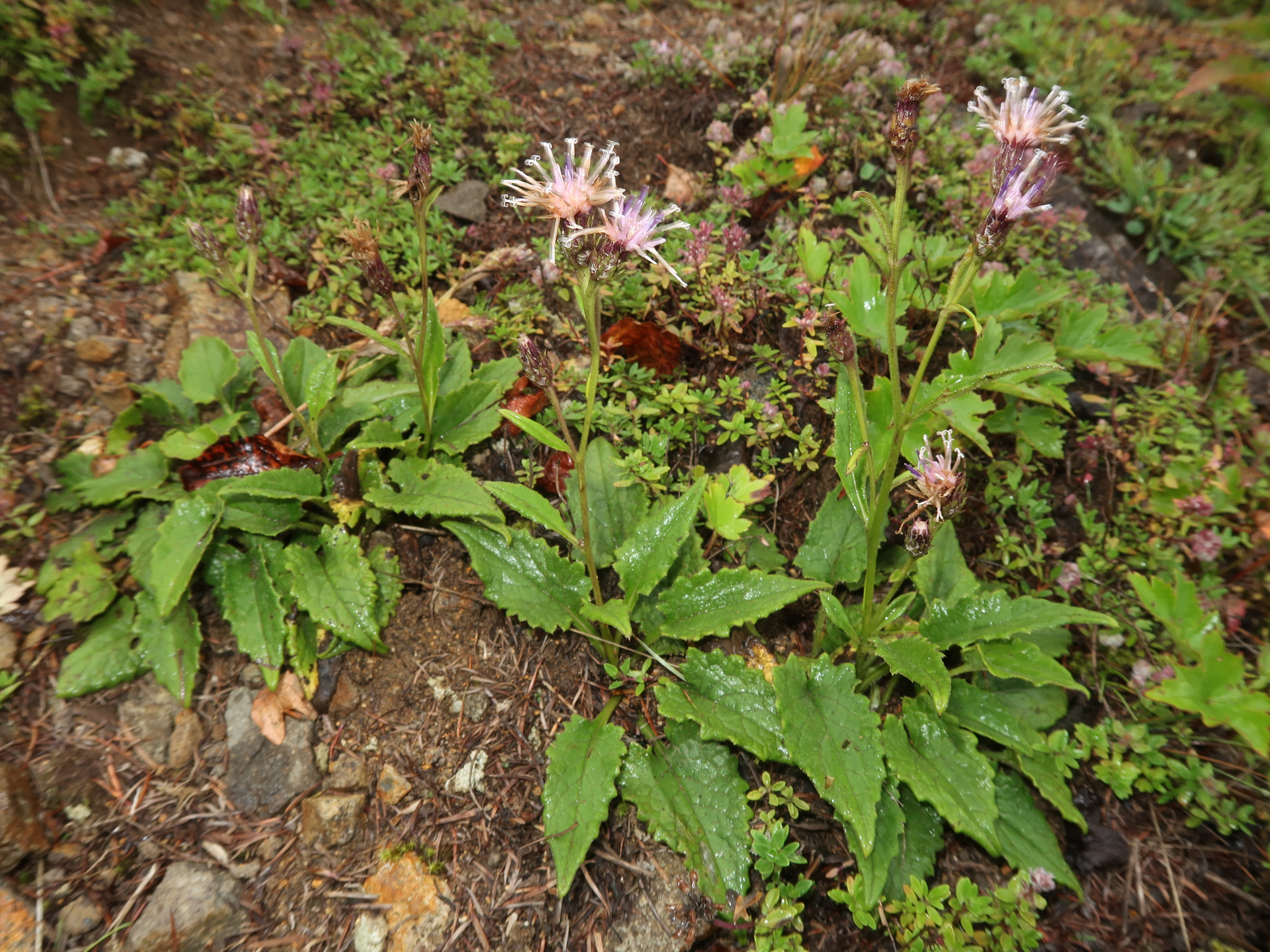 Saussurea mihoko-kawakamiana, Mount Higashi-Kagonotoyama, Nagano pref., Japan